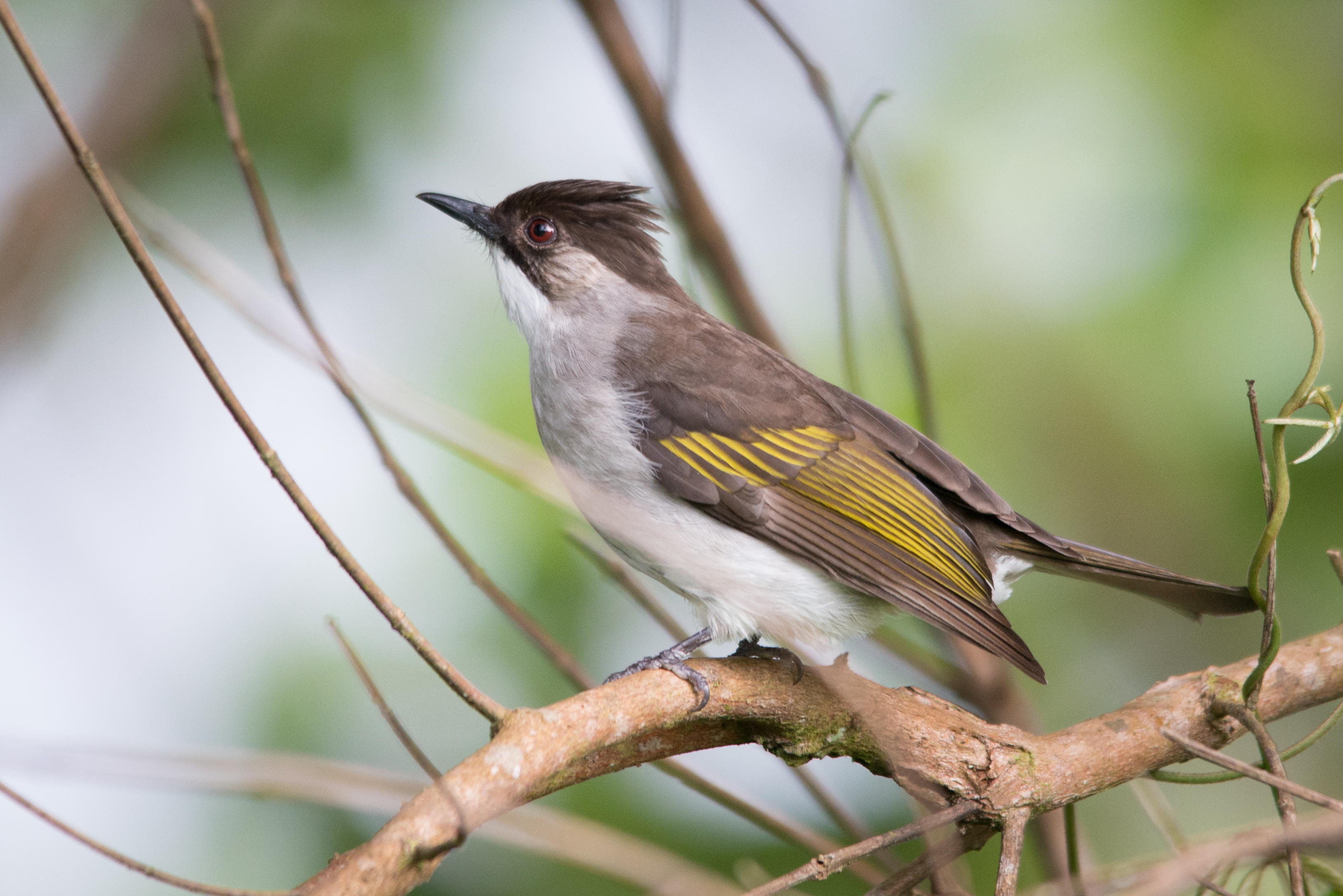 Hemixos flavala, ashy bulbul - Kaeng Krachan National Park, Thailand. Photo by Thai National Parks, Thailand.